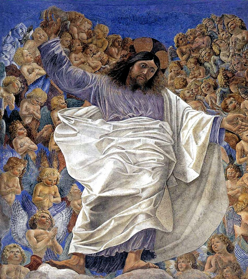 Triumphant Christ, fresco transferred to canvas, actually in Palazzo Quirinale, Rome (originally in Santi Apostoli, Rome)